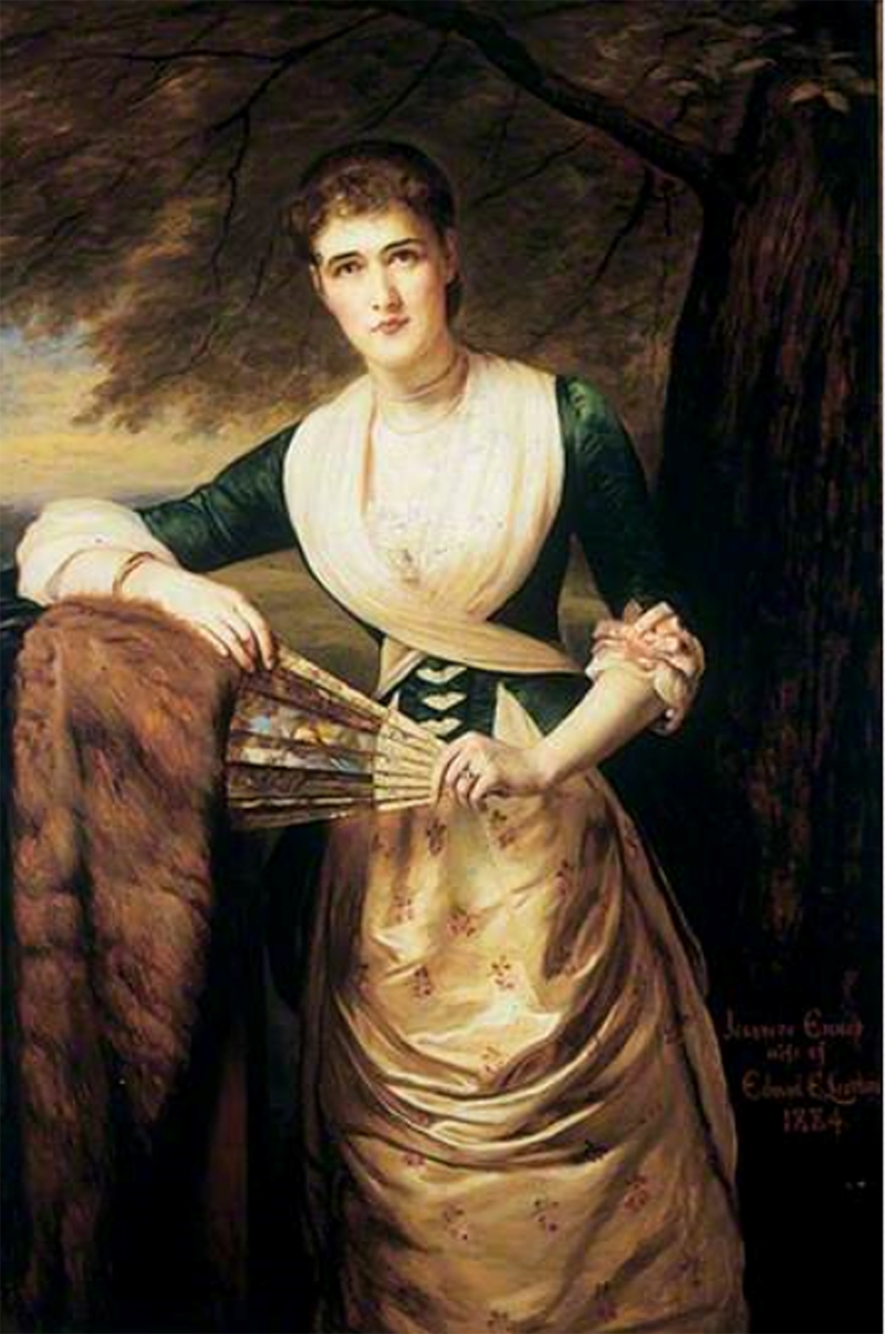 Jeanette Emmet Leatham, resident of Wentbridge House 1884